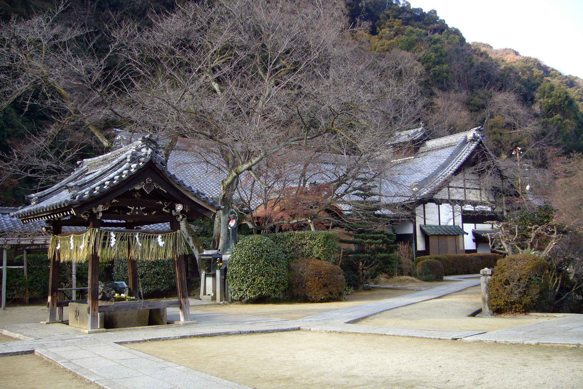 Yamazaki Shoten, a Buddhist temple in Oyamazaki, Kyoto prefecture, Japan